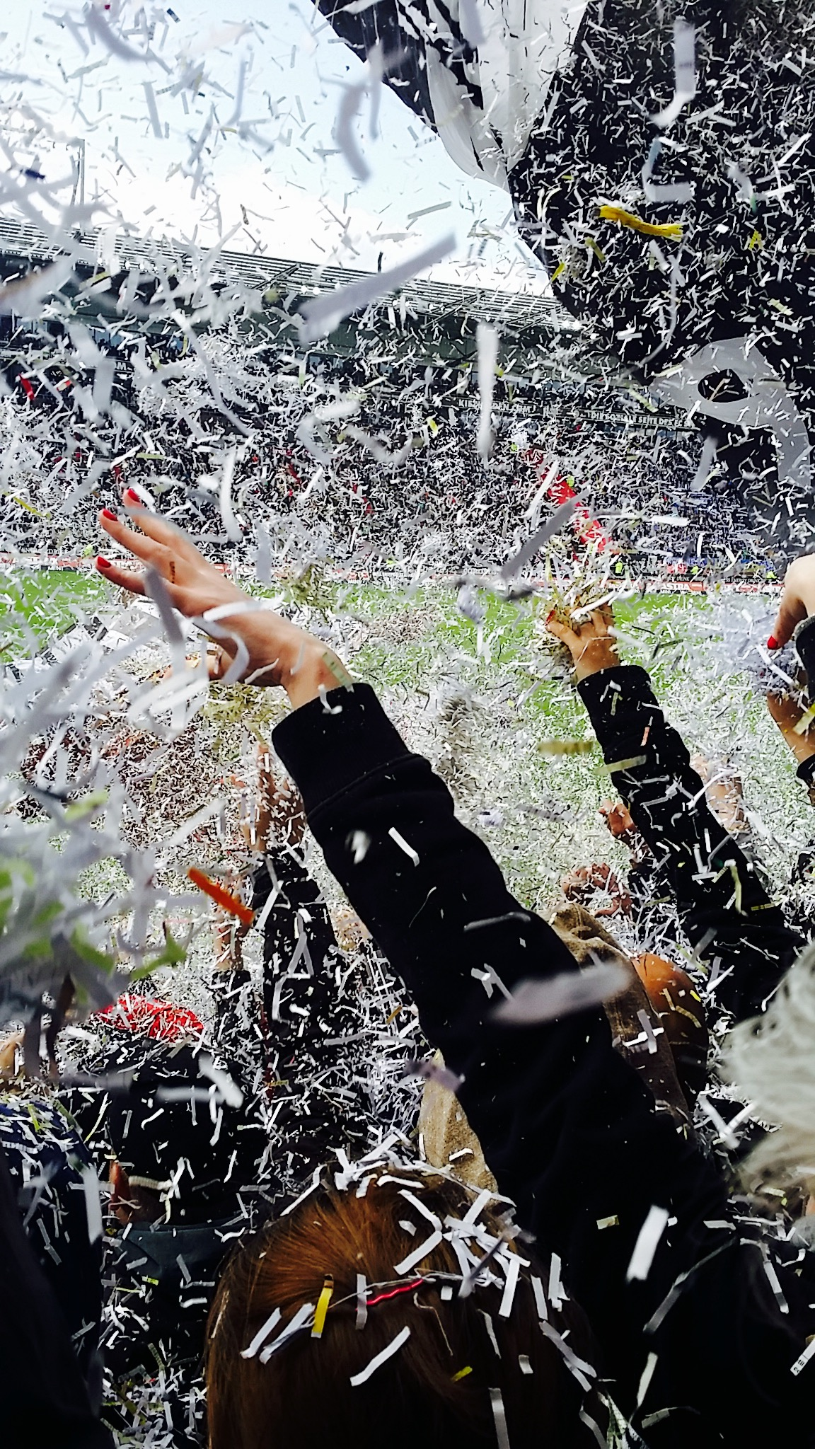 Location: St. Pauli, Hamburg, Germany Stadium: Millerntor-Stadion, Gegengerade Event: Football match, 2. Bundesliga (2nd division), 33. Spieltag Final result: FC St. Pauli - VfL Bochum 5:1 (2:1) Date: Sunday 17 May 2015 - 15:30